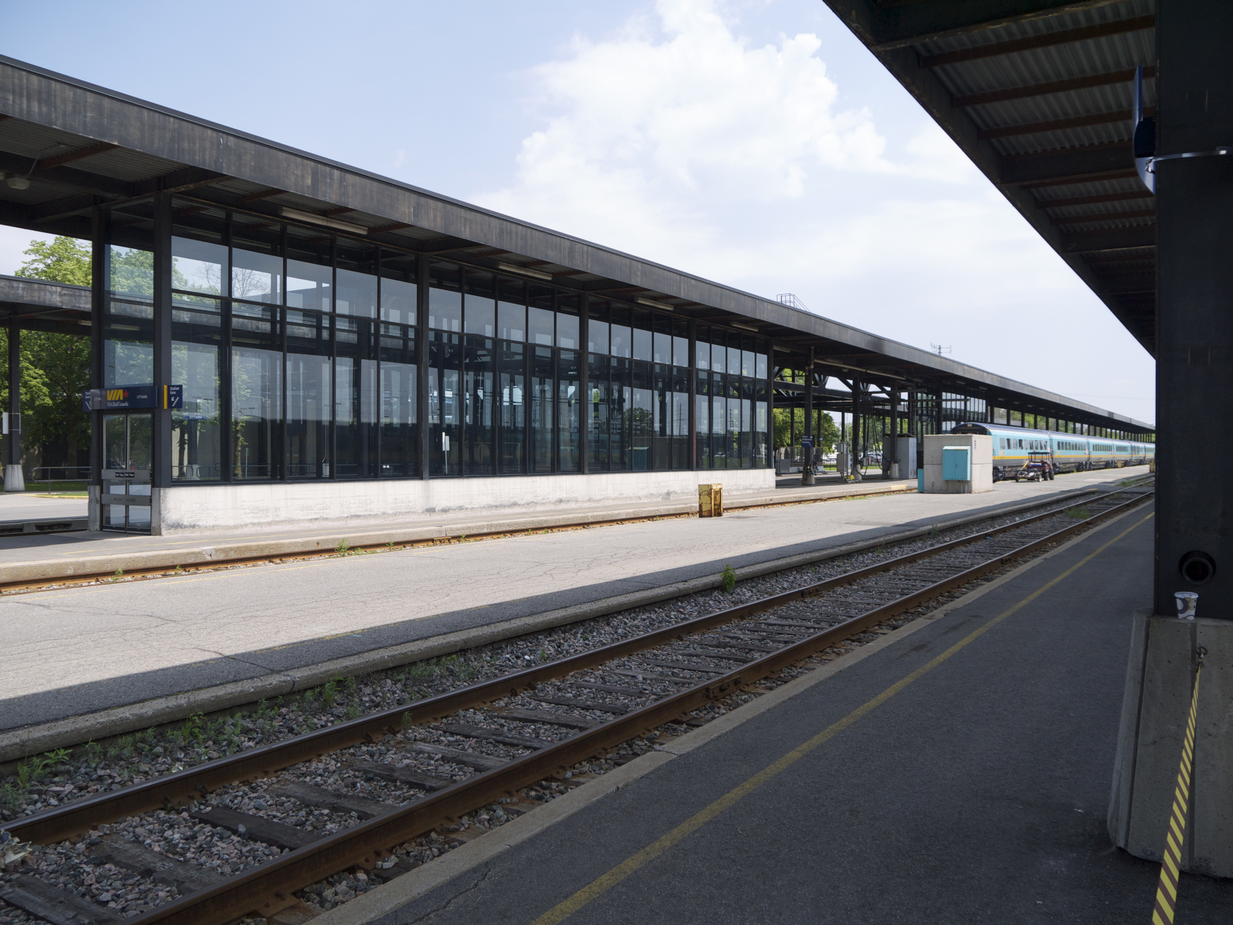 Ottawa Train Station